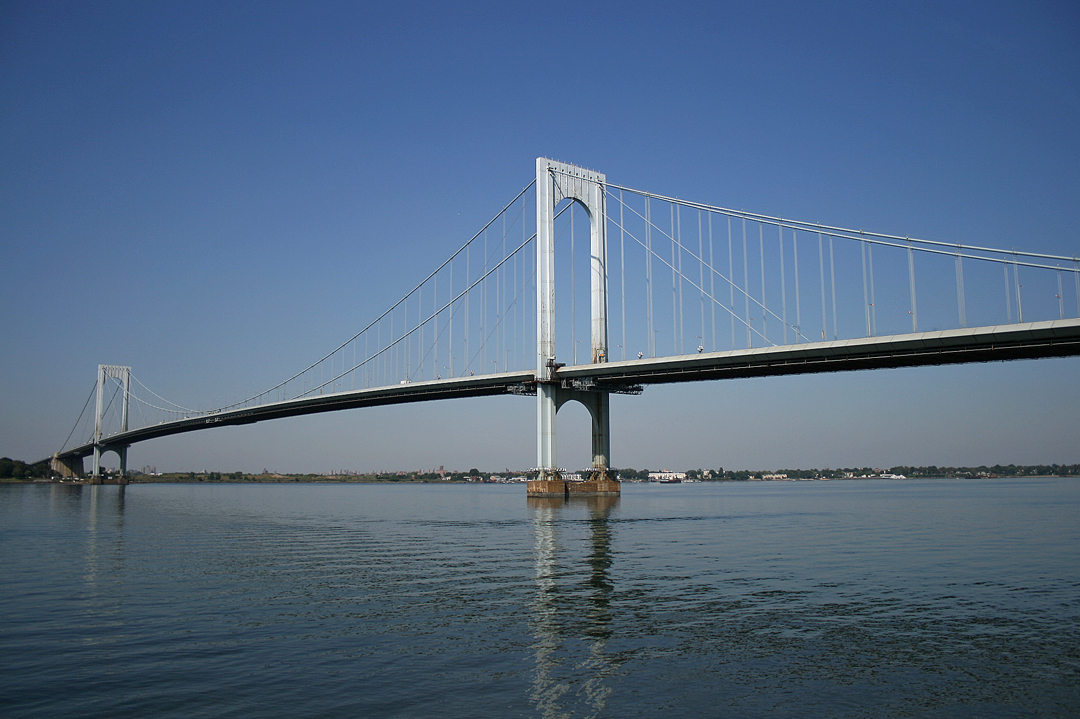 This image of the Bronx-Whitestone Bridge was taken September 20, 2007 from the foot of Parsons Boulevard on the Queens side of the East River. (Photographer: David Torres)